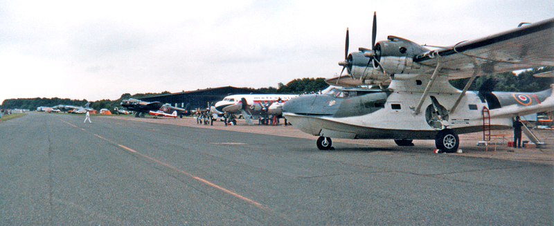 A line-up of aircraft at the Great Warbirds Air Display at RAF West Malling, on the 31 August 1987. The aircraft are, from right (nearest camera) to left: A Consolidated Catalina - this aircraft later crashed on landing and sank on 27th July 1998. A Convair Metropolitan-type A Republic P-47 Thunderbolt A DHC-1 Chipmunk An Avro Lancaster - the Battle of Britain Memorial Flight's PA474 A Fairey Flycatcher and at the very far end, an RAF Avro Vulcan. Also present at the display was the singer Gary Numan, who brought his North American Harvard, which at the time was painted all-over white with red Hinomaru Rising Sun markings to represent a Japanese Zero.